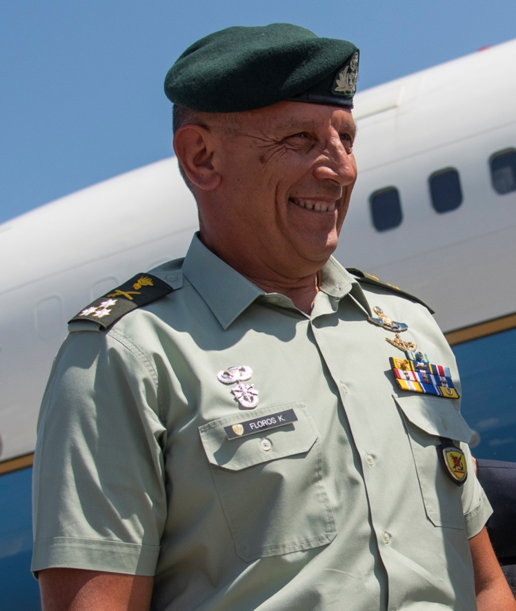 Lt. General Konstantinos Floros of the Hellenic Armed Forces